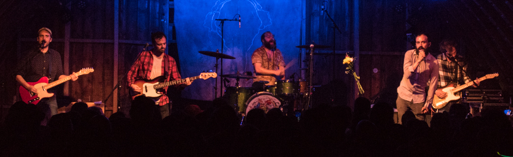 MeWithoutYou at Codfish Hollow, Maquoketa, IA 5/24/19